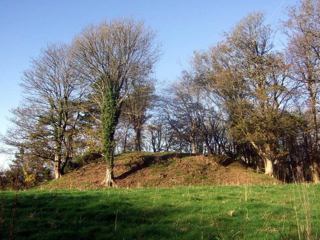 Wolf's Castle mound The remains of a C12 motte and bailey castle lie just above the confluence of the Afon Anghof and the Cleddau Wen, a commanding defensive position for the Normans here. It's not certain whether Wolf was one of them, or whether the name comes from the animal itself: the Welsh name Cas Blaidd signifies the latter. This is the motte, the bailey is to the right.